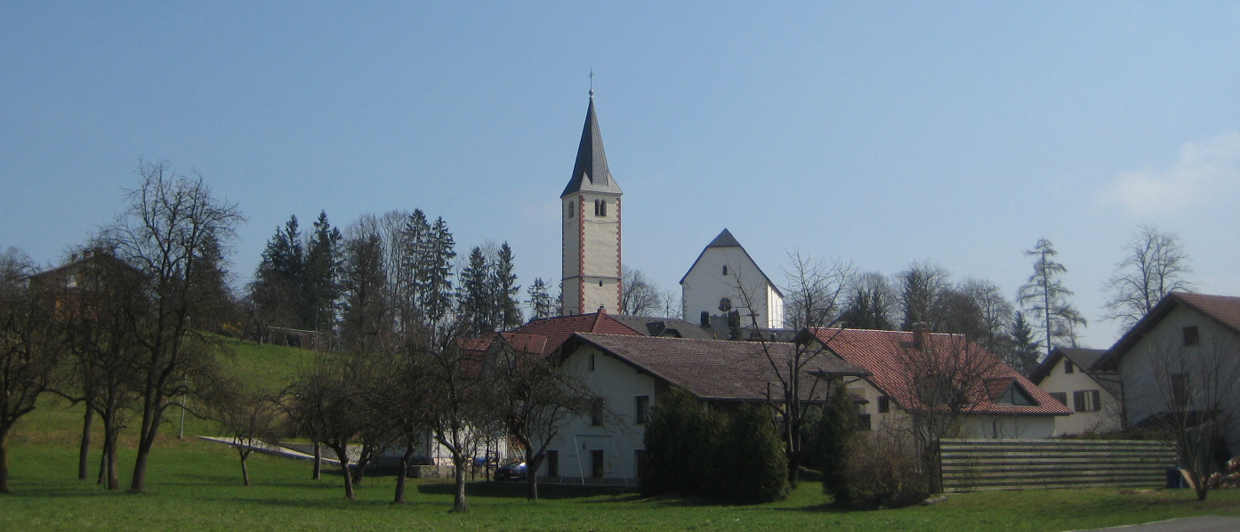 Krtina, village in Slovenia (church of St. Rok)